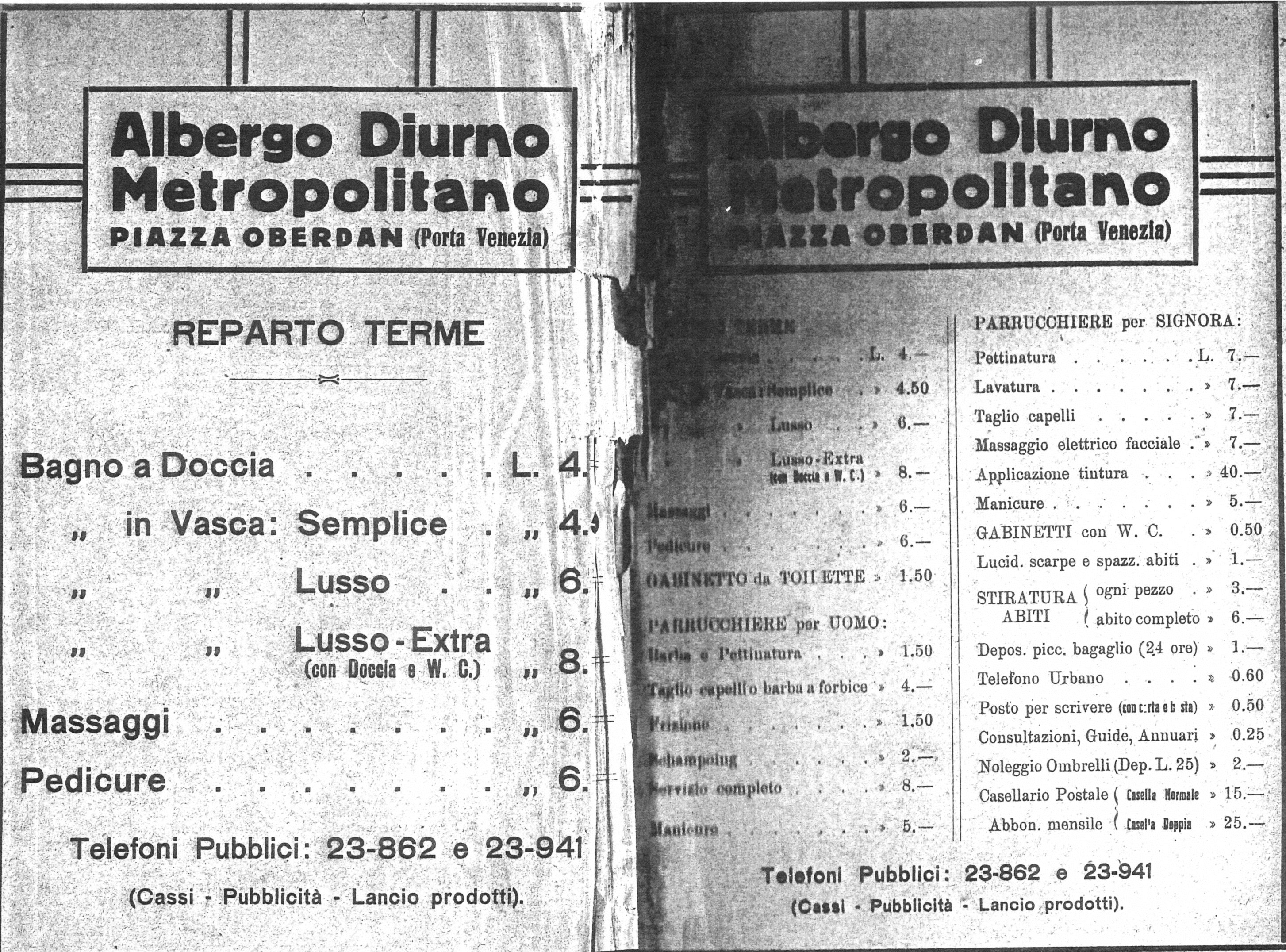 Pricelist in Albergo diurno Venezia in Milan in 1926